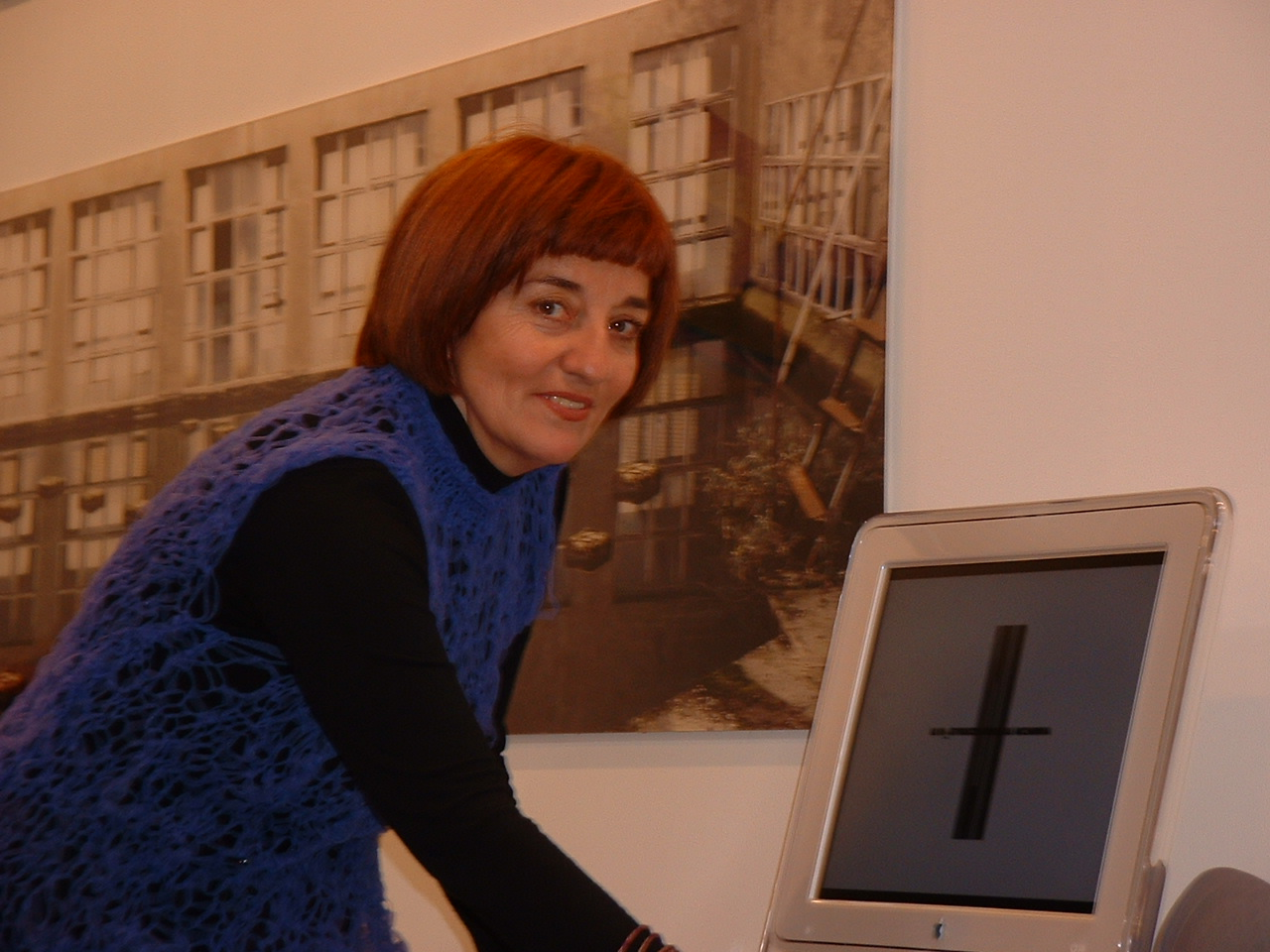 Marisa González at ARCO Madrid Fair